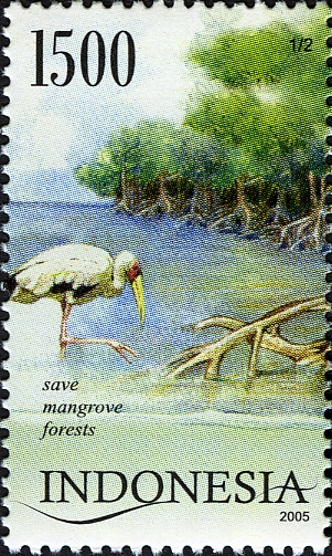 Stamps of Indonesia